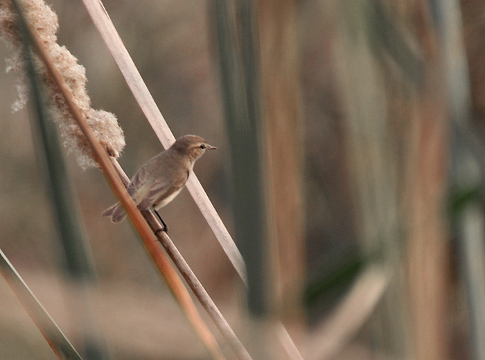 Common Chiffchaff Phylloscopus collybita in Delhi, India.